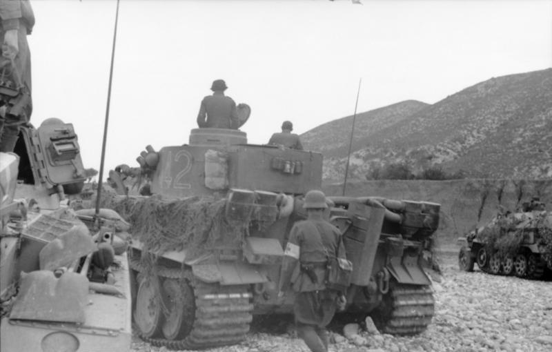 Information added by Wikimedia users.Schwere Panzer-Abteilung 504 (Size and style of number on turret, located in Tunisia)[1]